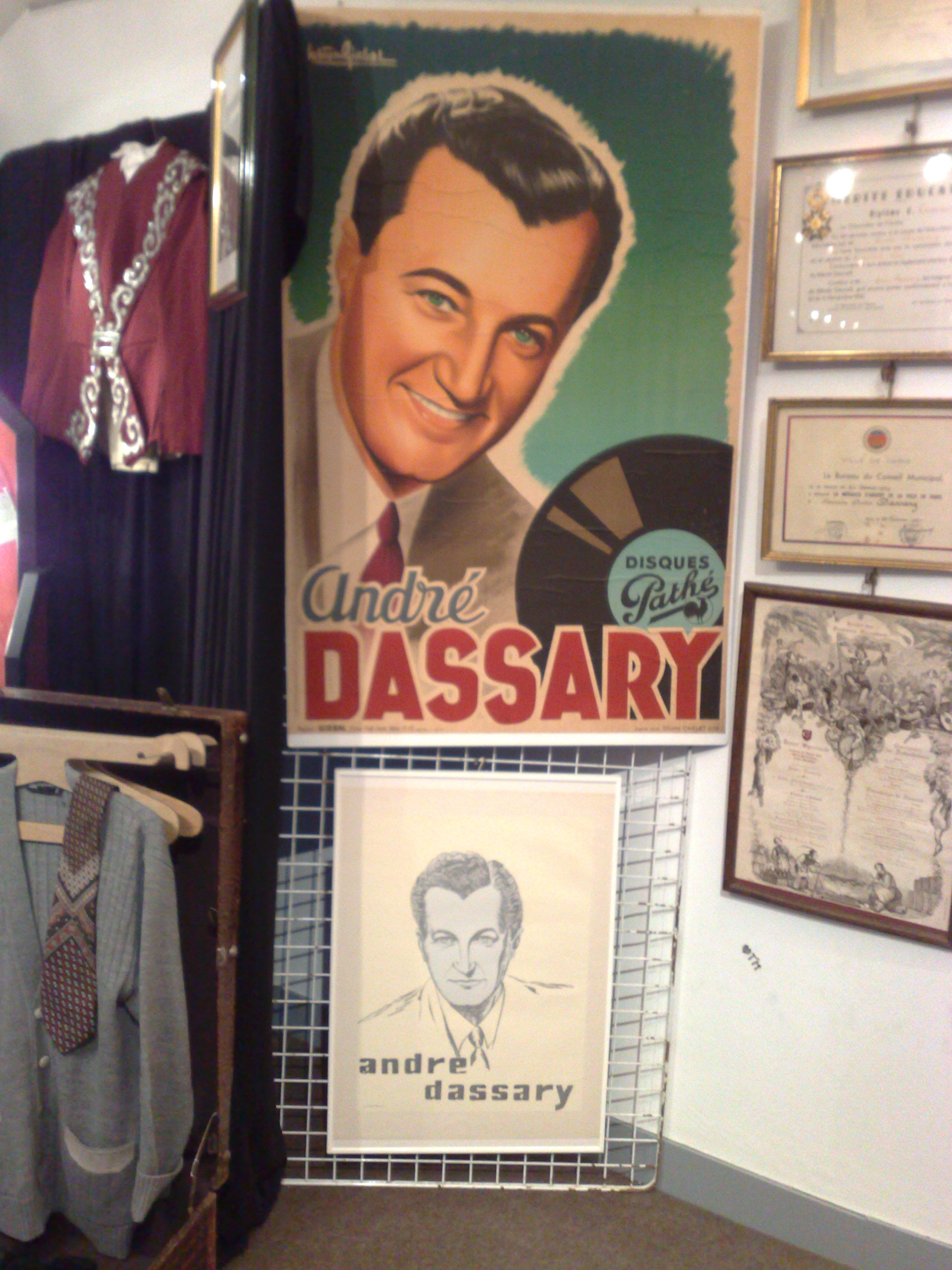 Poster of singer André Dassary. Exhibition in his birthplace Biarritz, Labourd, Basque Country at the Colisée.